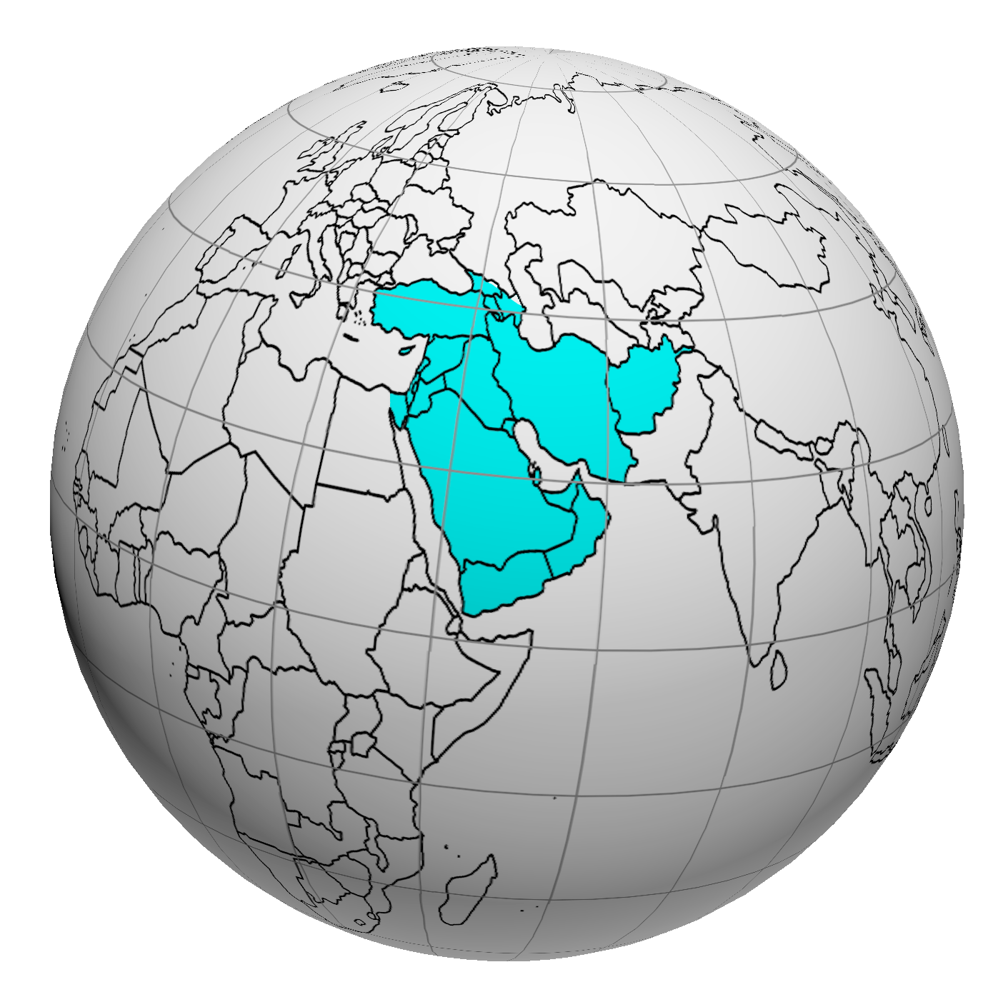 Western Asia on the World map